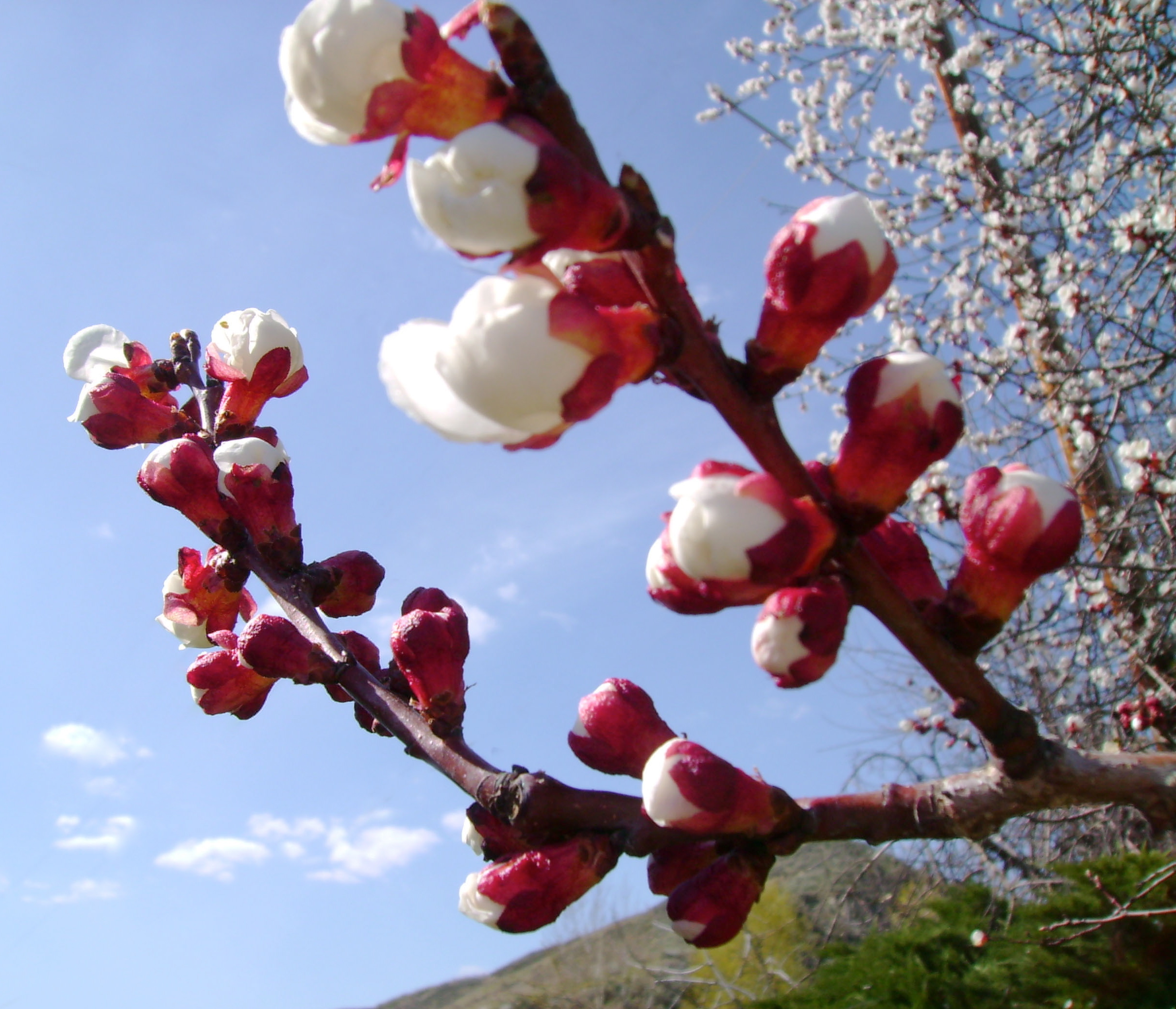 Nectarine tree branch